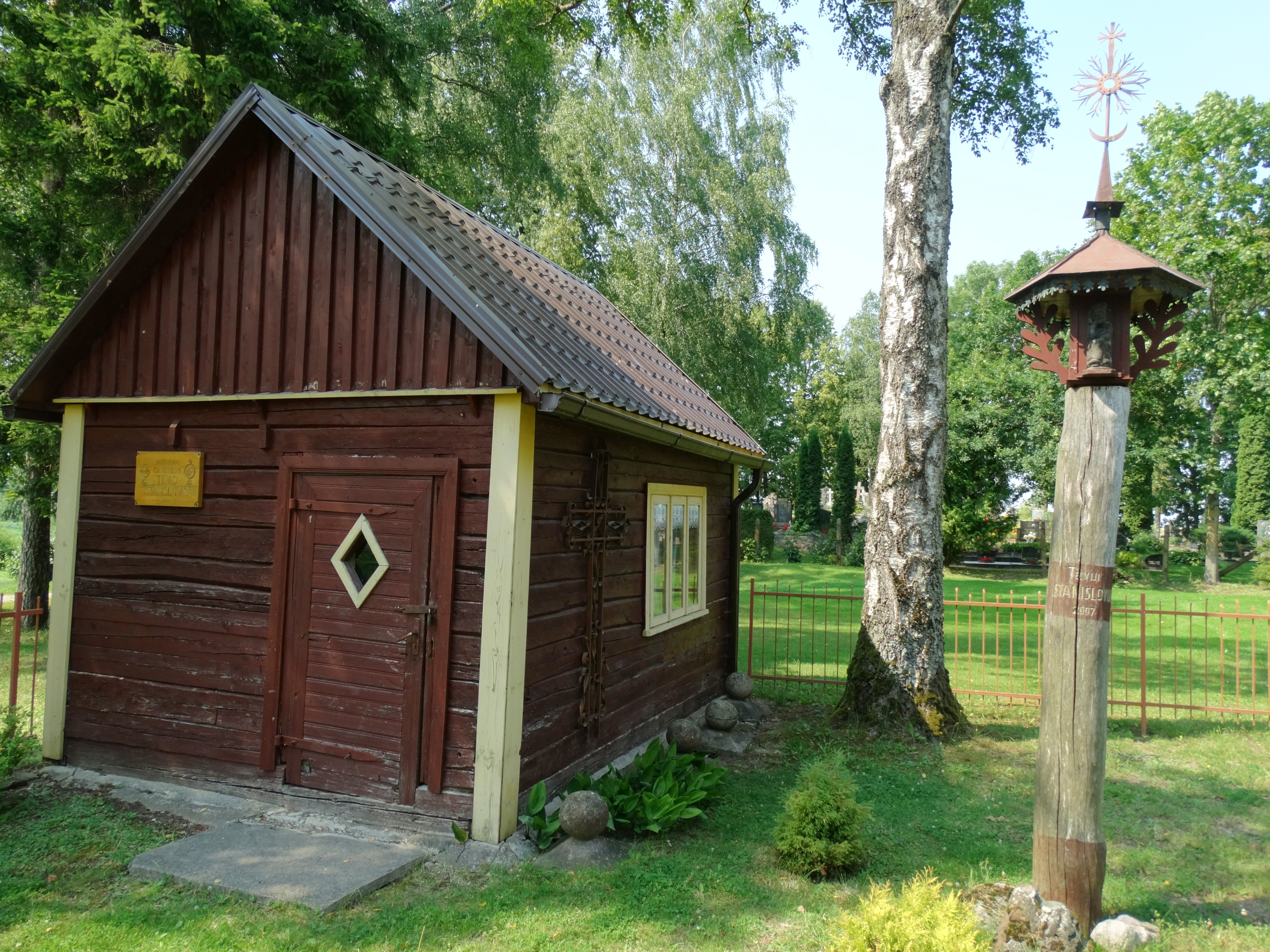 Father Stanislovas' house in Juodeikiai, Joniškis district, Lithuania